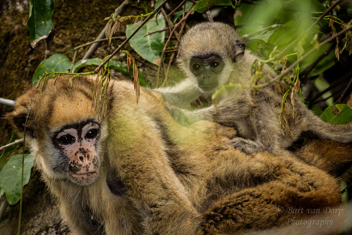 Northern muriqui (Brachyteles hypoxanthus), female adult and infant, in RPPN Feliciano Miguel Abdala, Caratinga, Brazil.